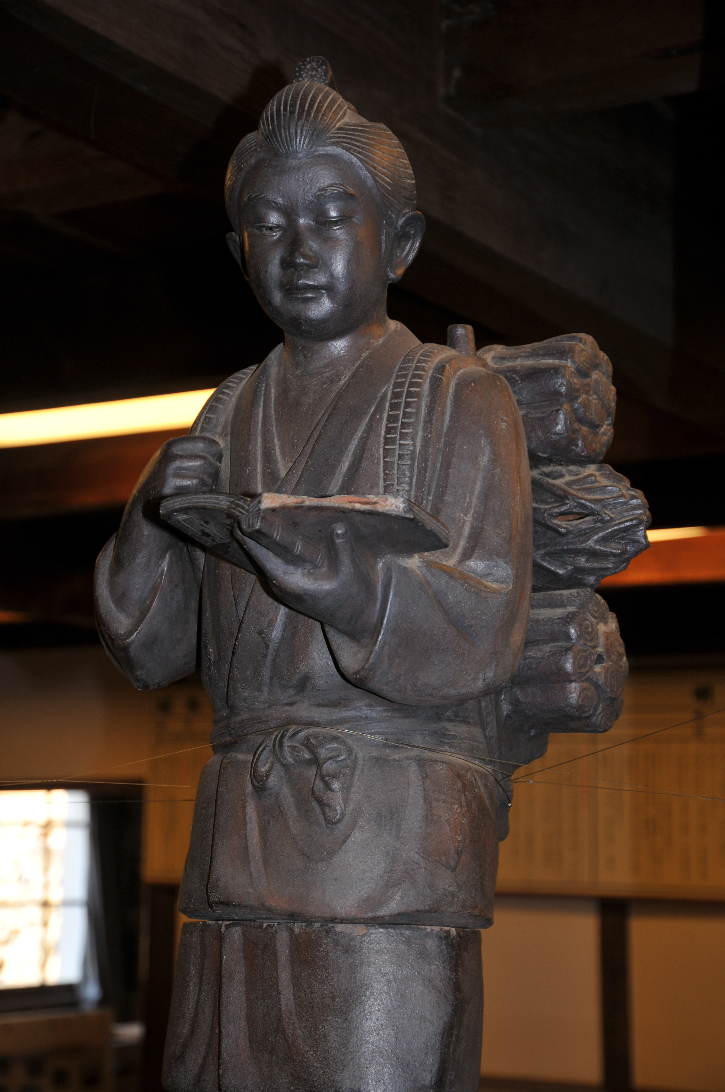 Statue of Ninomiya Sontoku in Kaimei School